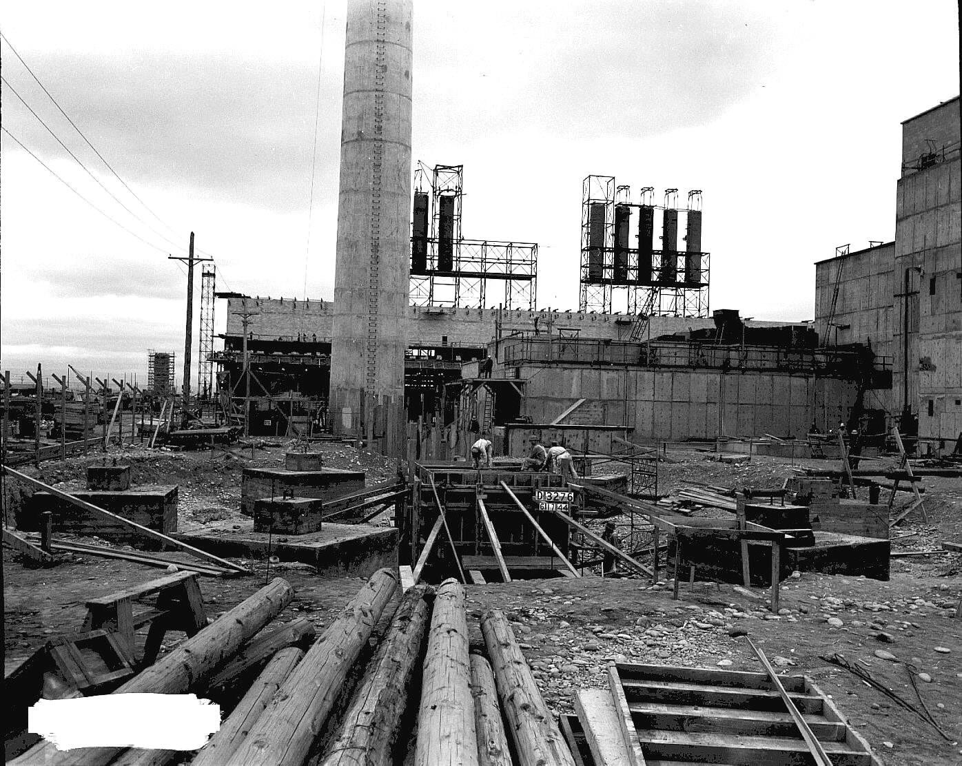 Construction of the B-Reactor at the Hanford site.